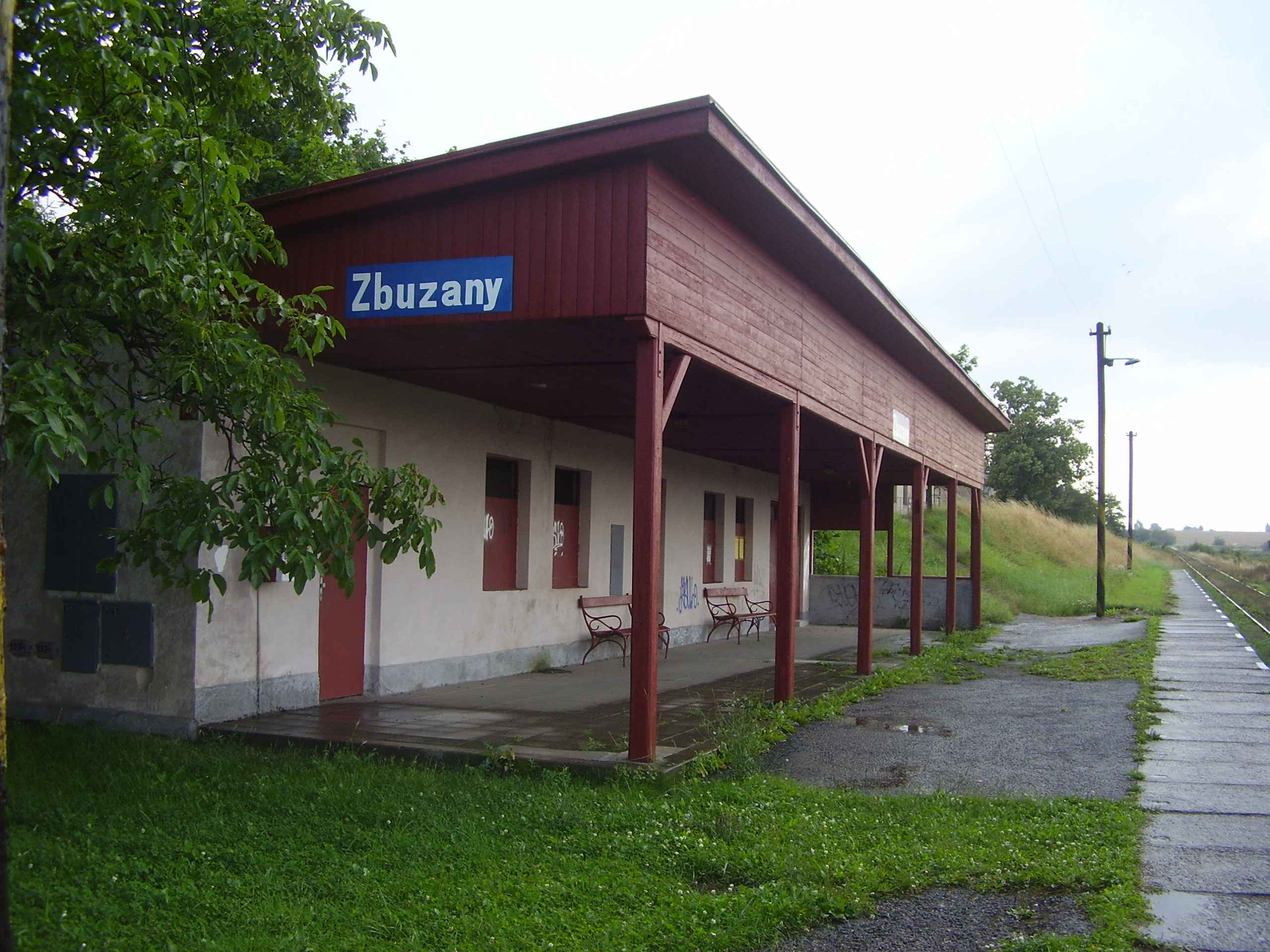 Train station in Zbuzany